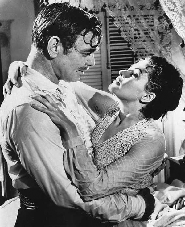 Publicity photo of Clark Gable and Yvonne de Carlo in Band of Angels.